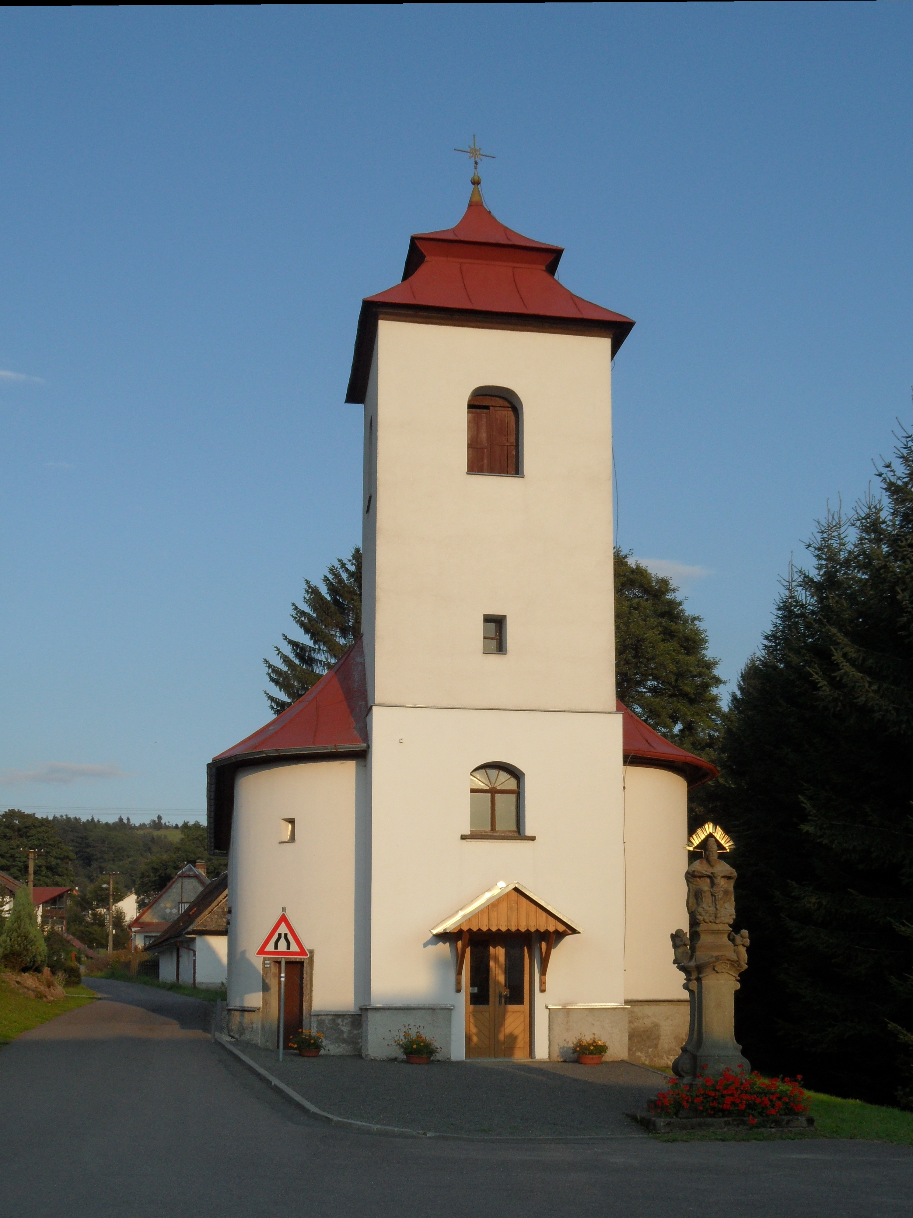 Šanov (Červená Voda) E. Church, Ústí nad Orlicí, the Czech Republic.